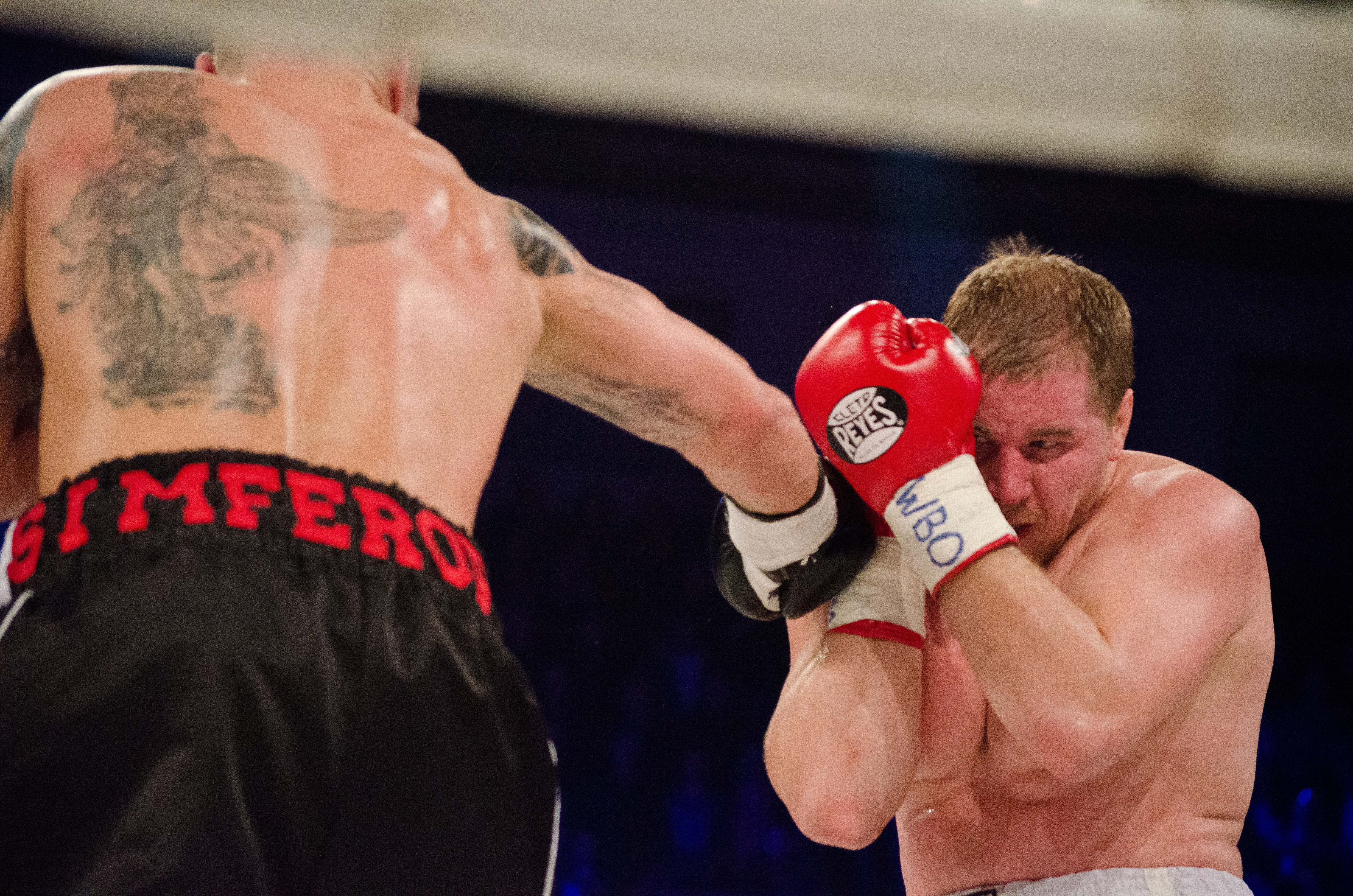 Oleksandr Usyk - Andrey Knyazev boxing fight, Kiev, Ukraine.